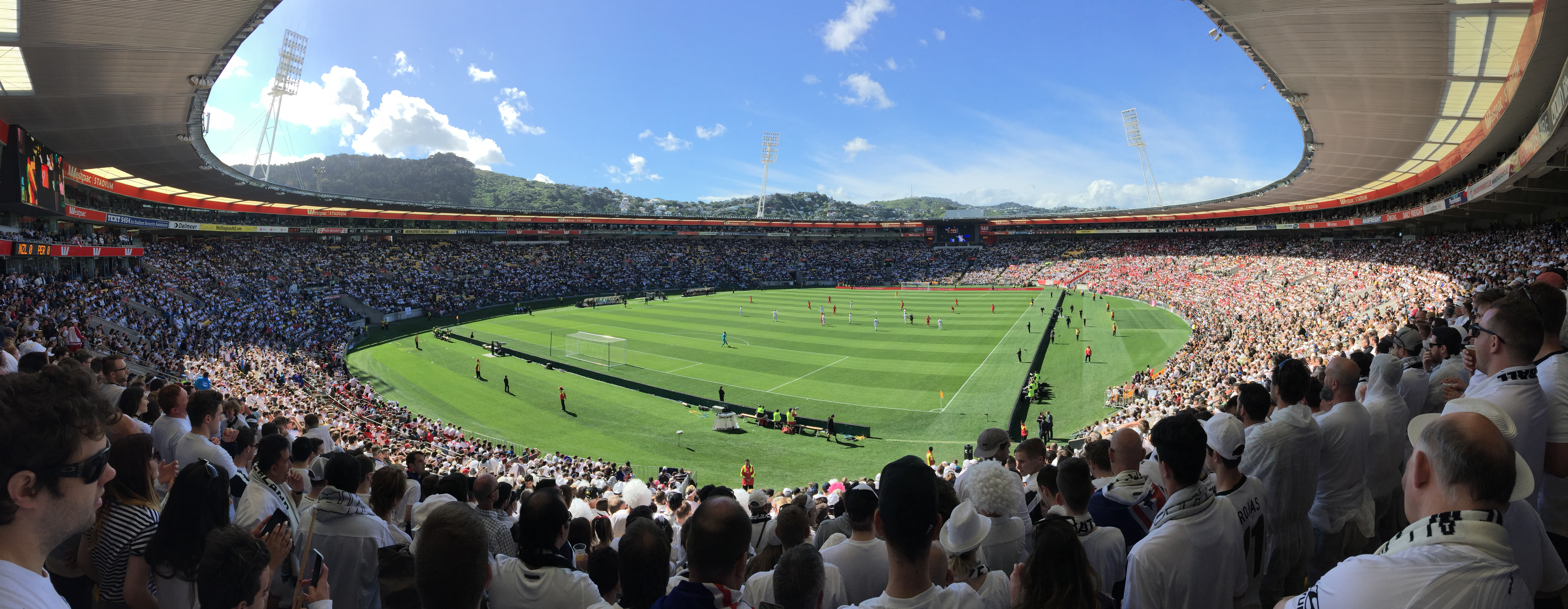 New Zealand national football team v Peru - 2018 FIFA World Cup qualification (inter-confederation play-offs) at Wellington Regional Stadium. 0-0 draw in front of record crowd for Football in NZ of 37,034